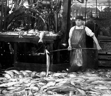 E. A. Smith's "The Iron Chink", a cleaning device marketed to replace Chinese fish canners using anti-immigration and racist rhetoric. A Chinese laborer stands beside the machine. Photo first published in Pacific Fisherman annual 1906. The photo has been cropped and contrasted to emphasize the worker. Original negative and scan a part of University of Washington Libraries, Special Collections Division.